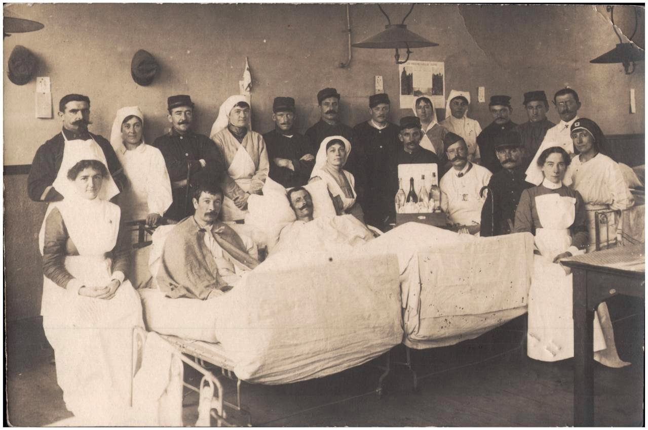 A unique and wonderful image, sent by Nurse Margaret Ripley to her sister. We can be almost certain that she was in Le Havre or nearby. I don't believe though that she is shown in this photograph. On the reverse she wrote "Mind you save all the PC I send this is of ward upstairs with the 2 sisters & the Head & Orderlies." For more details of the story behind this album